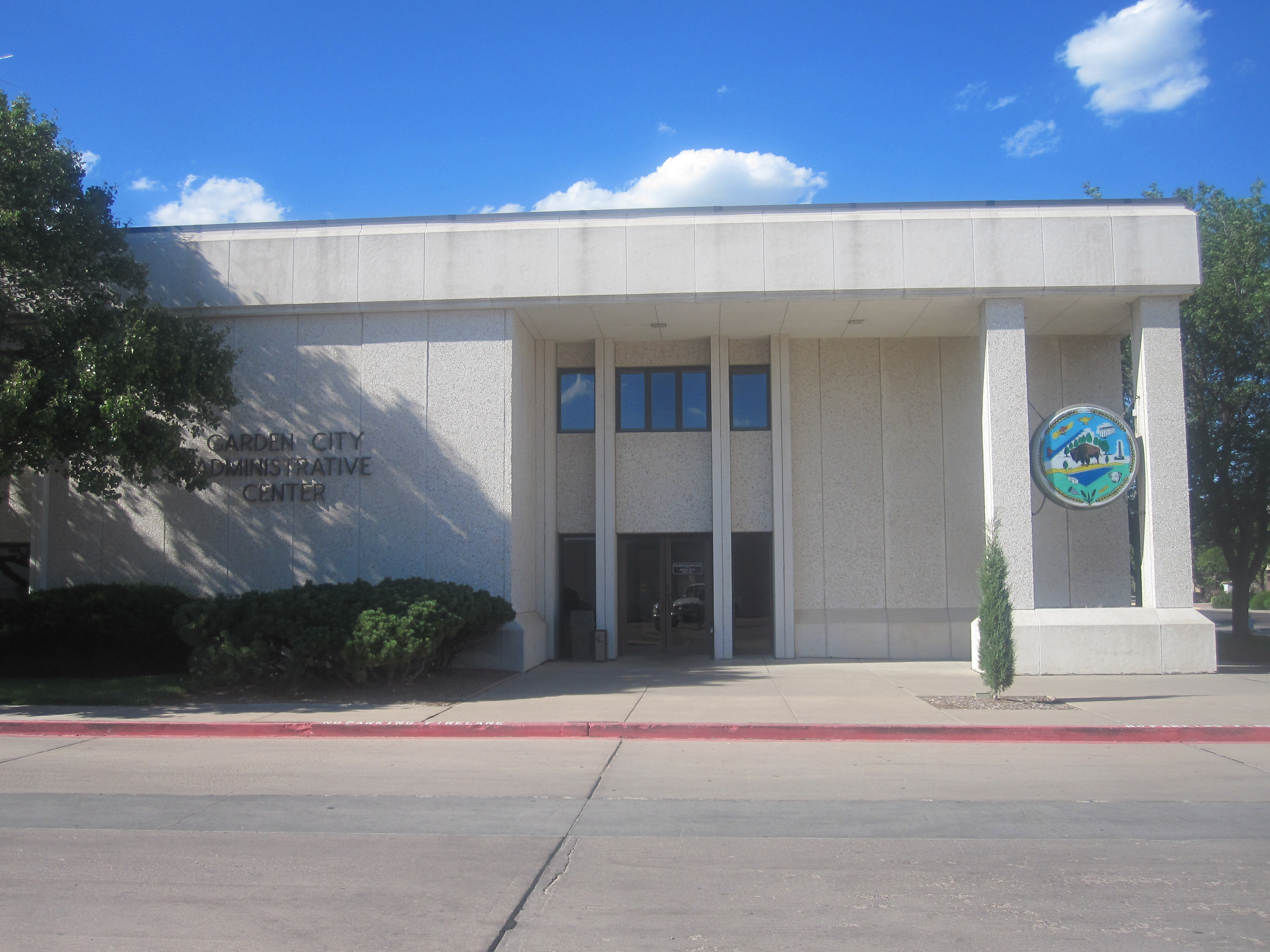 I took photo with Canon camera in Garden City, KS.